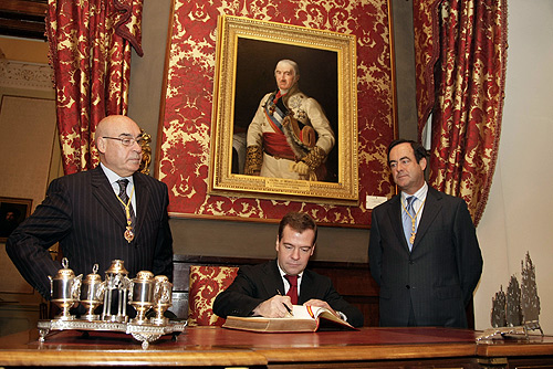 MADRID. Dmitry Medvedev signed the Book of Distinguished Guests.